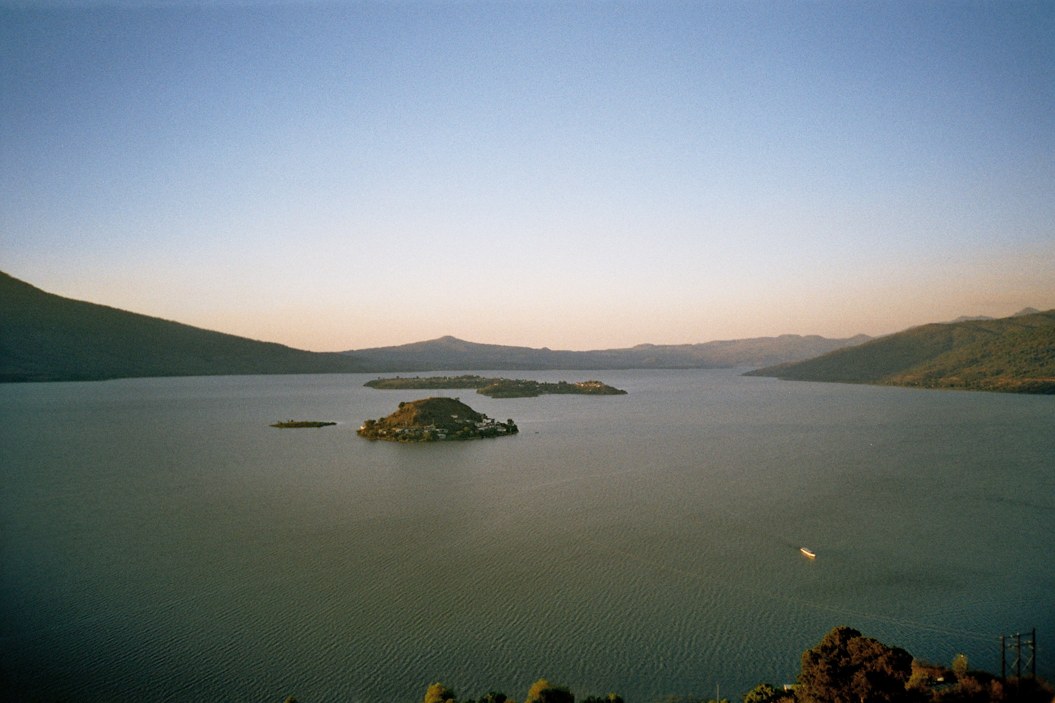 Some islands in Lake Pátzcuaro, photographed from the top of the Janitzio island in Michoacan, Mexico. Picture taken in the spring of 2005 by me. Note: I do not know the names of the islands in the photograph, some one who know them should edit this summary.